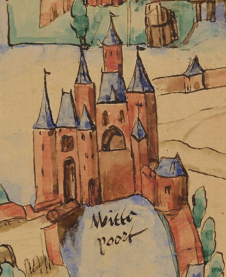 This file has been extracted from another file: Leiden map Sluyter.jpg Detail showing the Witte Poort (city gate)